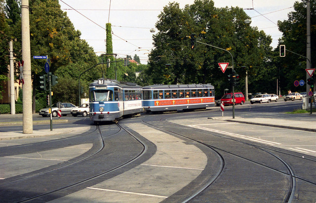 Kassel. Tram near Wilhelmshöhe station.